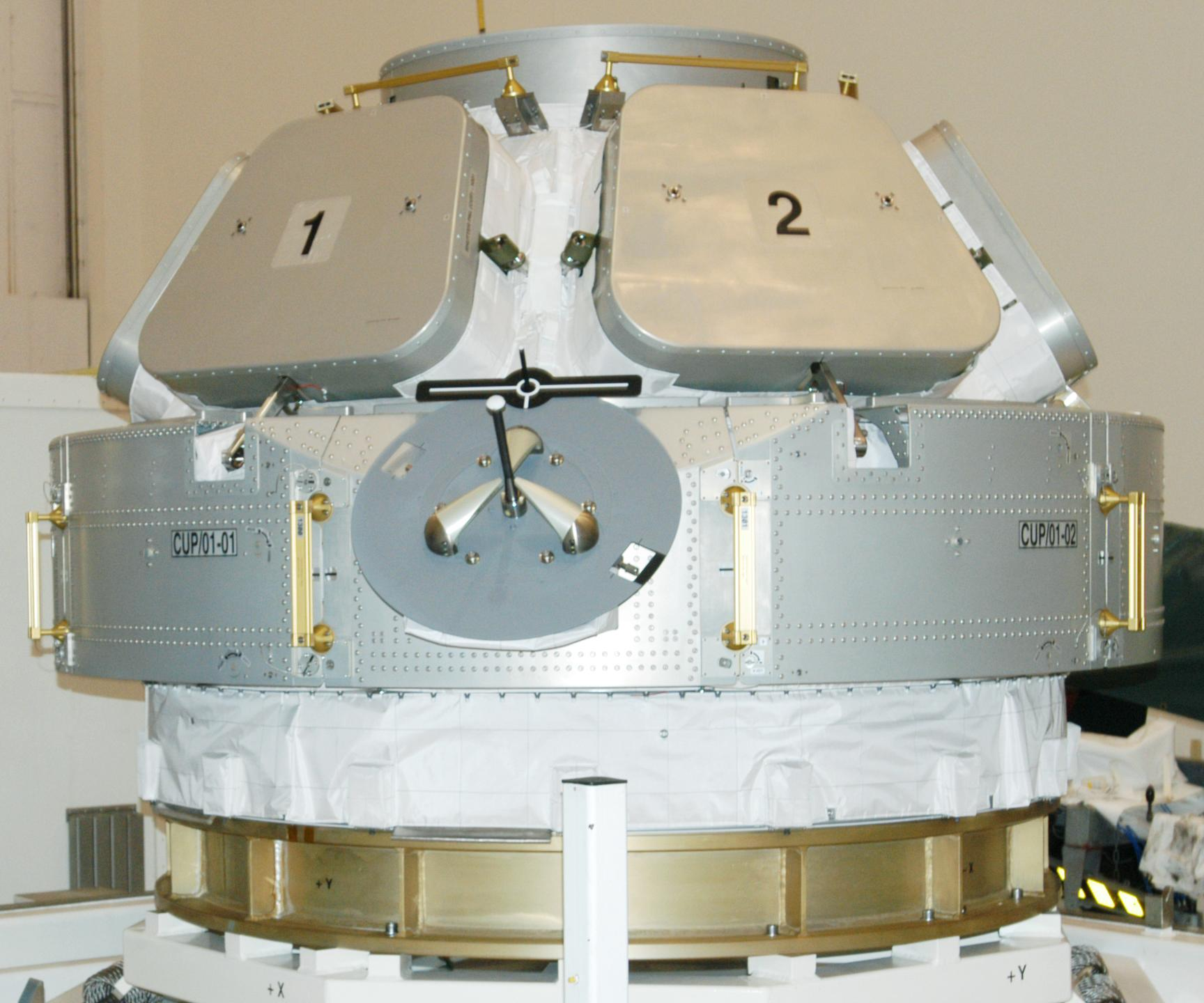 Kennedy Space Center, Florida – Inside the Space Station Processing Facility, a technician begins checking the Cupola after its delivery and uncrating. It was shipped from Alenia Spazio in Turin, Italy, for the European Space Agency. A dome-shaped module with seven windows, the Cupola will give astronauts a panoramic view for observing many operations on the outside of the orbiting complex. The view out of the Cupola windows will enhance an arm operator's situational awareness, supplementing television camera views and graphics. It will provide external observation capabilities during spacewalks, docking operations and hardware surveys and for Earth and celestial studies. The Cupola is the final element of the Space Station core.